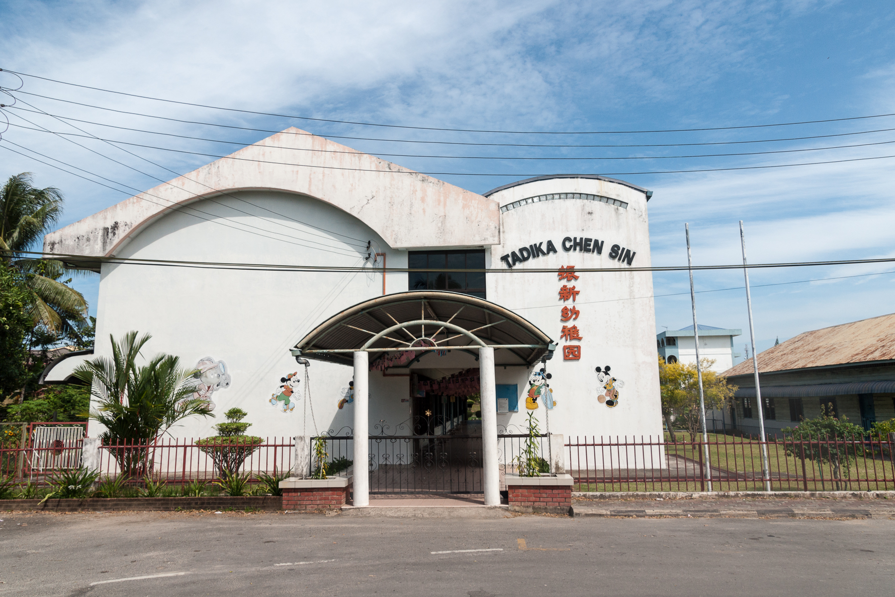 Tuaran, Sabah: Tadika Chen Sin Tuaran (Chinese Kindergarden and Pre-School Chen-Sin)